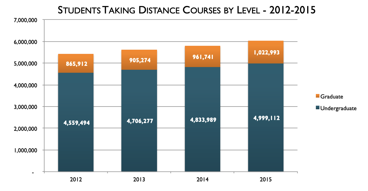 This graph displays the number of undergraduate and graduate students taking classes online from the year 2012 to 2015.